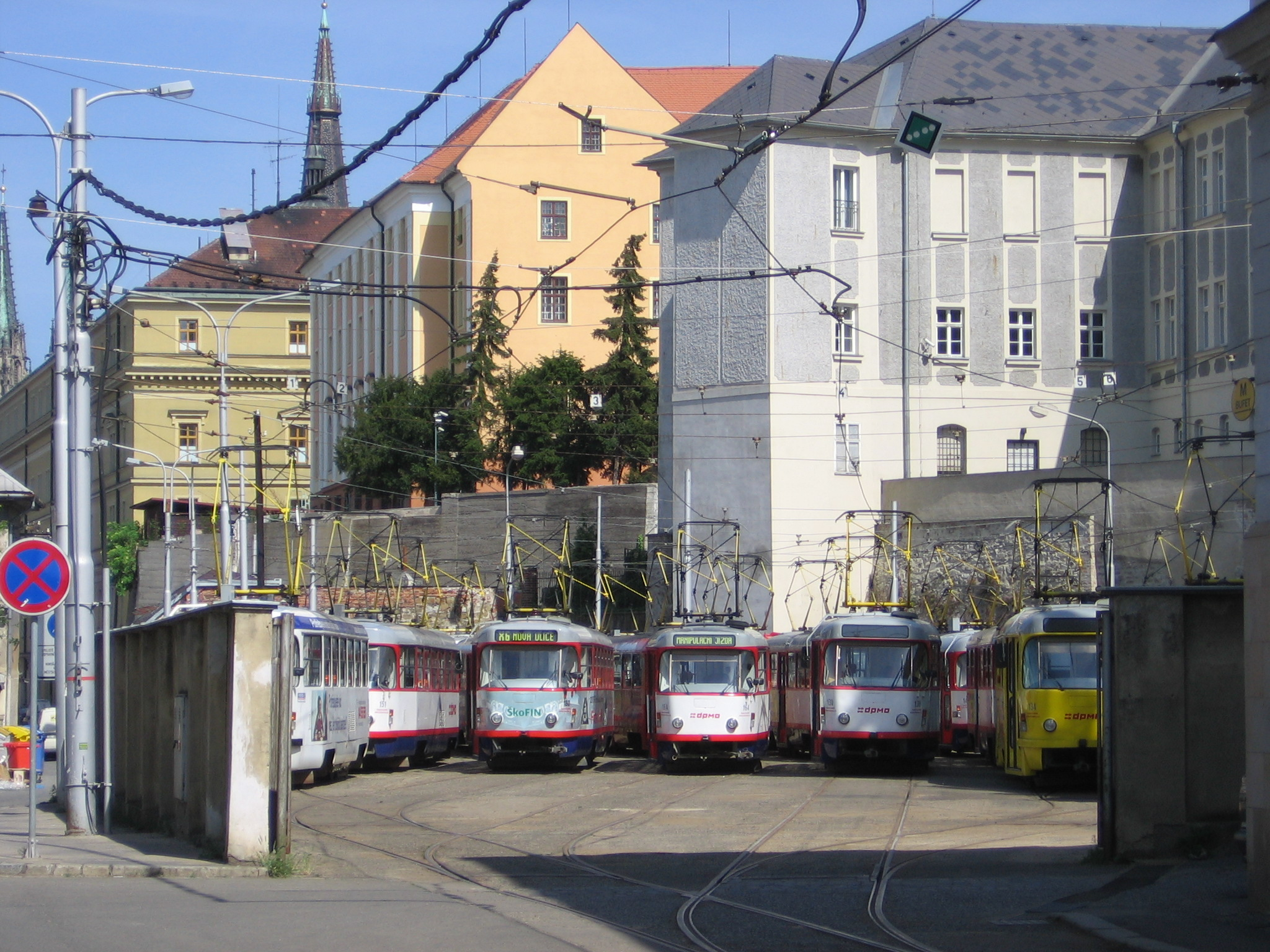 A part of Tram Depot in Olomouc (Czech Republic)